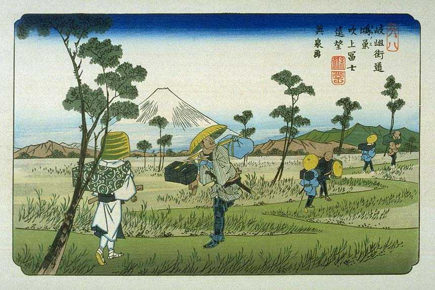 Konosu on the Kisokaido, ukiyo-e prints by Keisai Eisen